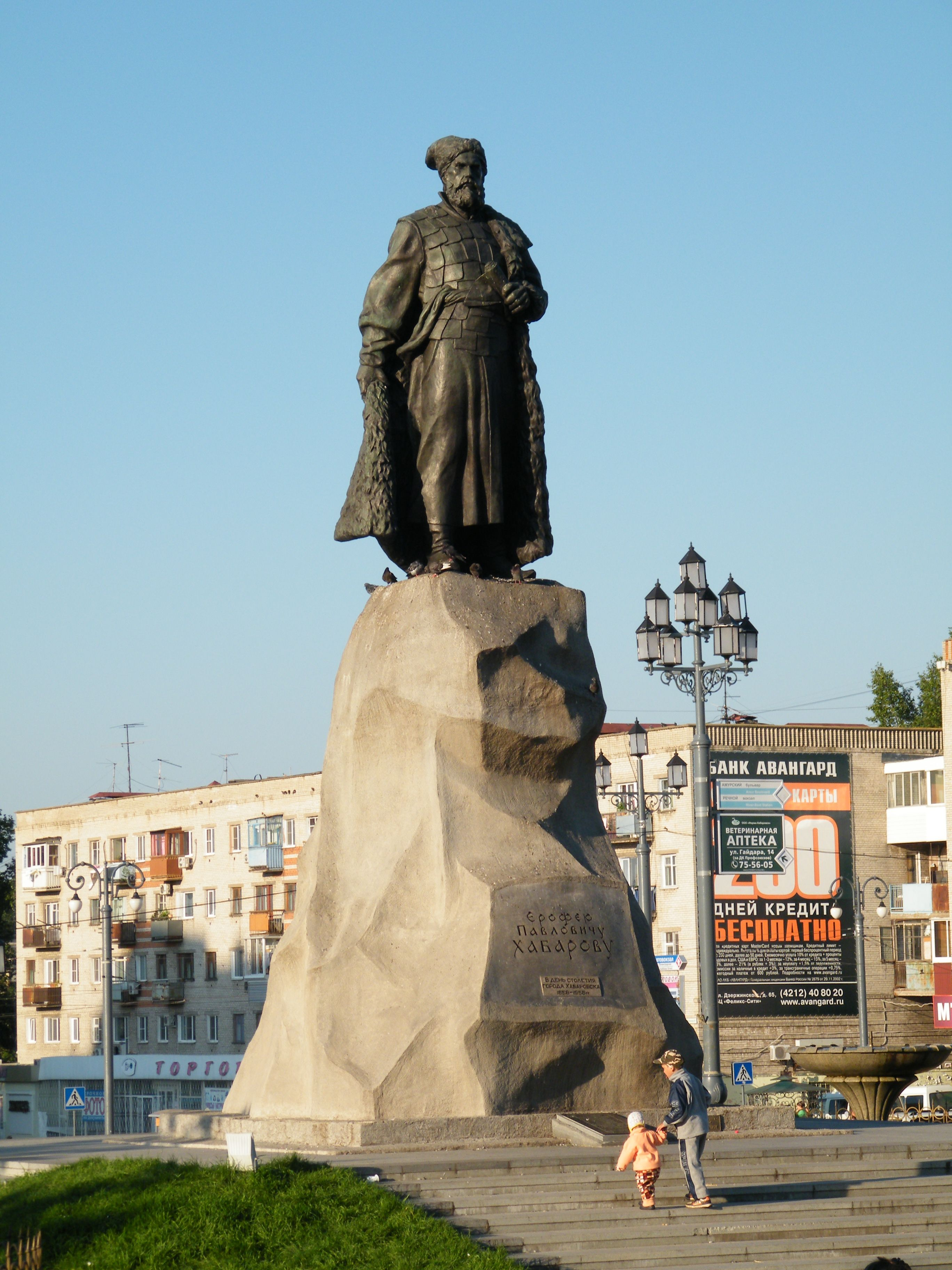 Khabarovsk